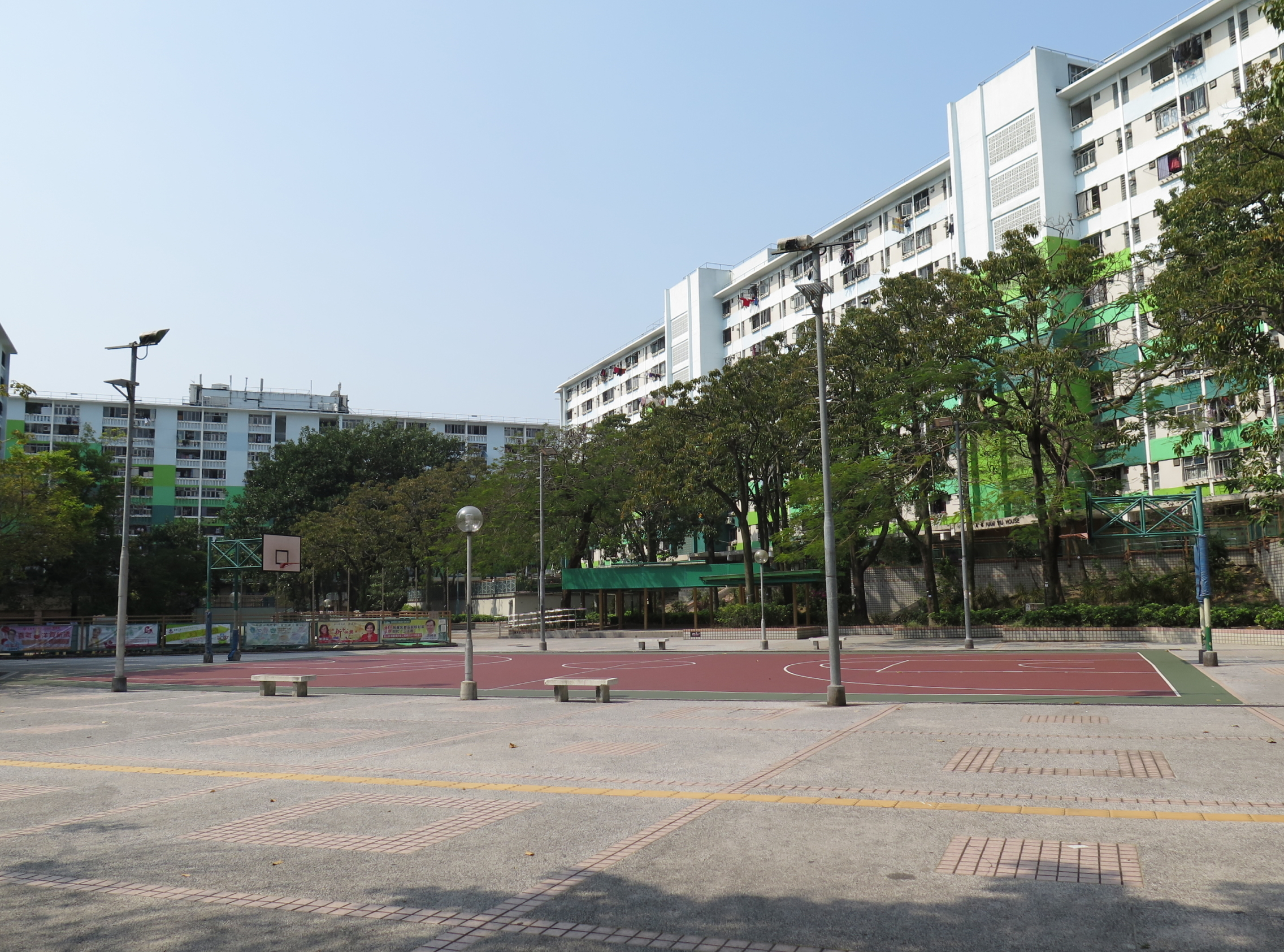 Nam Shan Estate Open Space